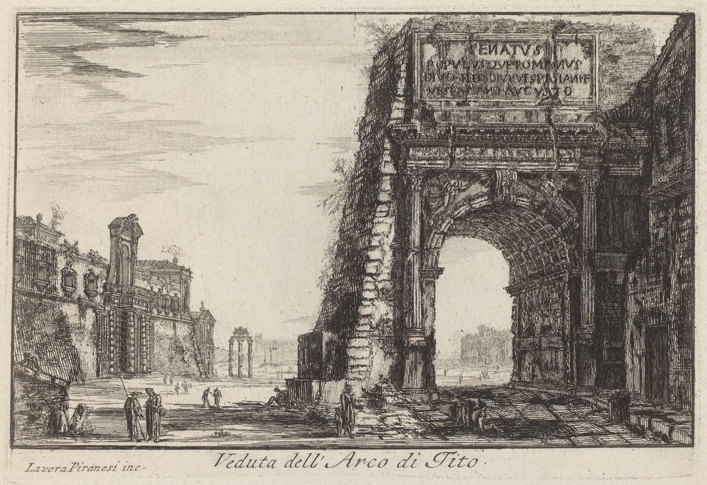 The Arch of Titus, Veduta dell'Arco di Tito in Rome, etching by Laura Piranesi (1755-1785), c. 1780 after Giovanni Battista Piranesi (1720-1778).